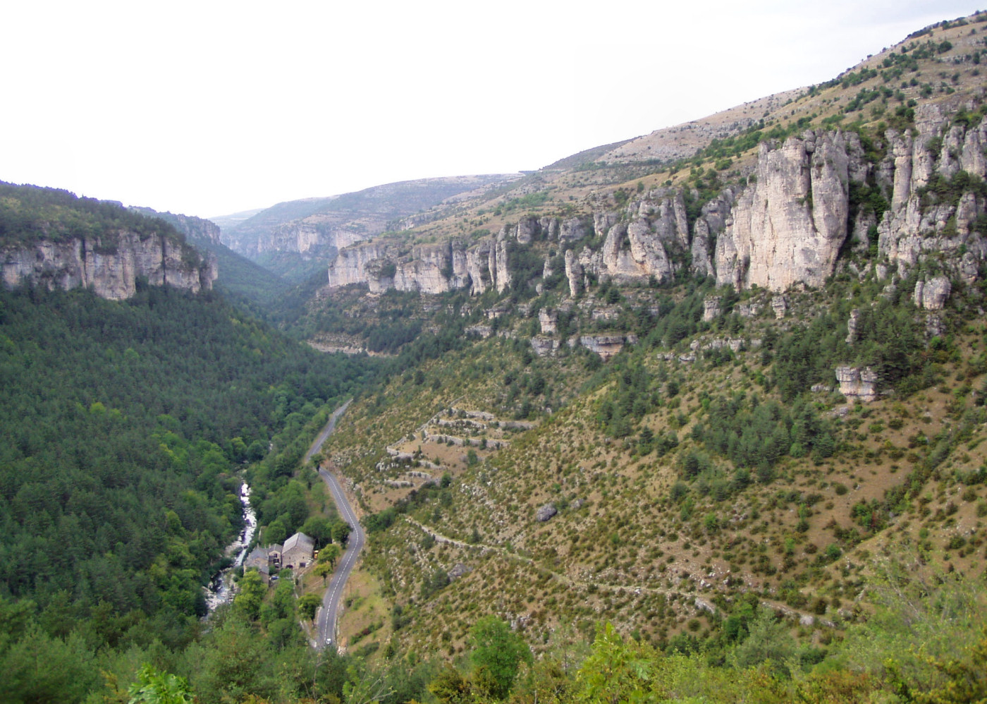 Gorge of the Jonte river and road D996 in Cévennes National Park, France.